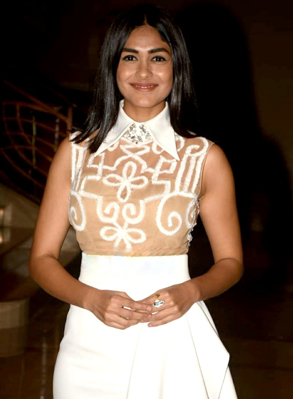 Mrunal Thakur promotes the film "Love Sonia", Sep 10, 2018